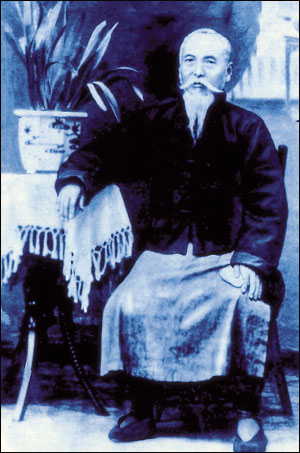 Yi Sang-ryong's photo